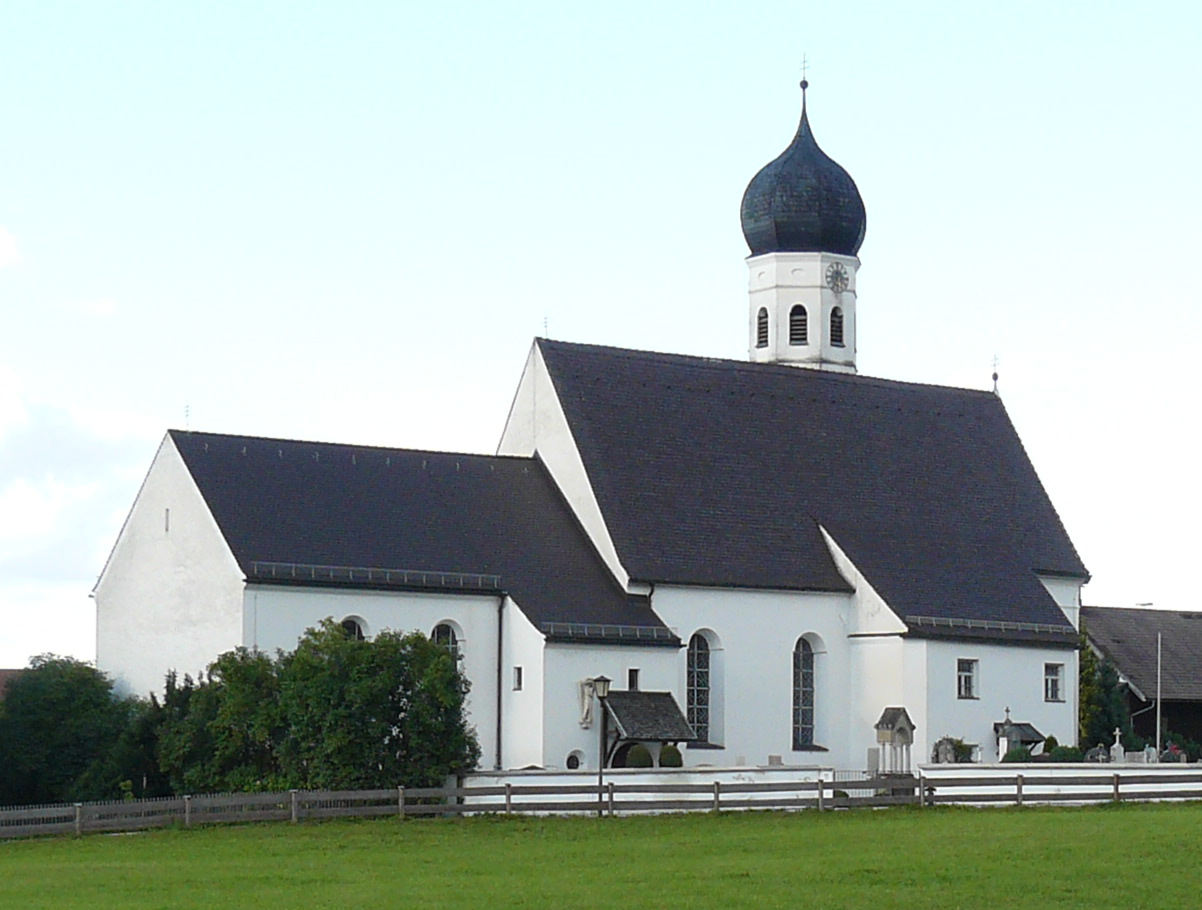 Kochel am See, church.